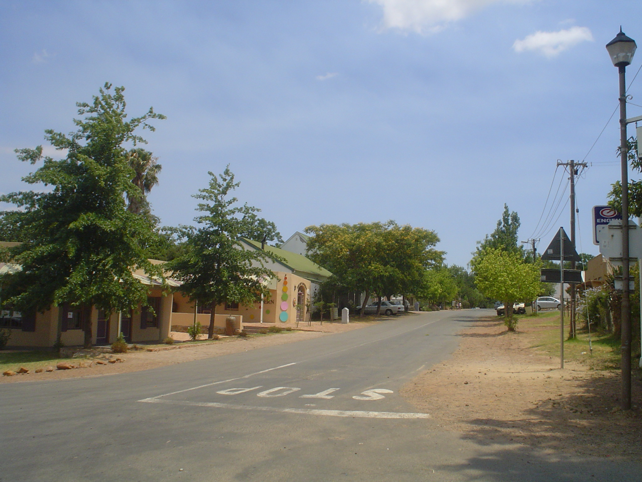 The 5 way stop in the center of Greyton with some shops in the distance